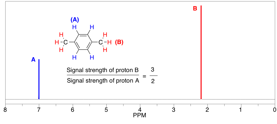 Predicted proton NMR of 1,4-dimethylbenzene from ChemDraw. The ratio of signal strengths of proton A and proton B equals to their molar ratio in the molecule.